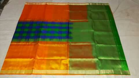 about saree manufraturing in india ......and weavers life style and theire problems they faced ......